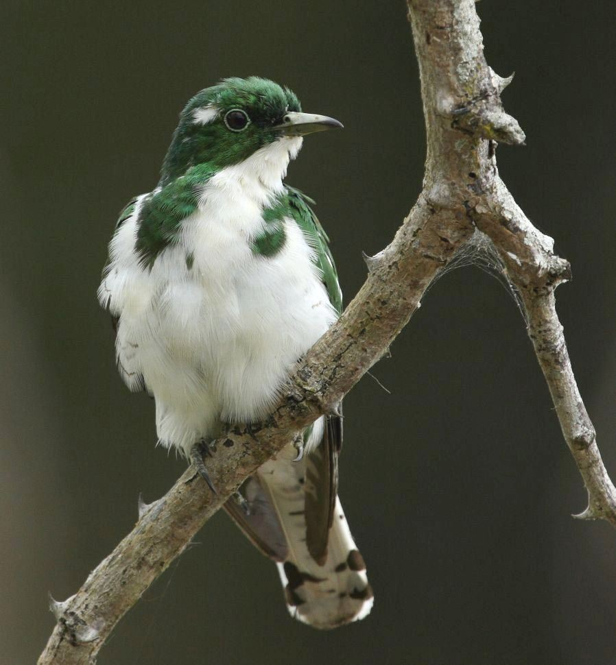 Male Klaas's Cuckoo (Chrysococcyx klaas) at Ngwenya Lodge, Mpumalanga.